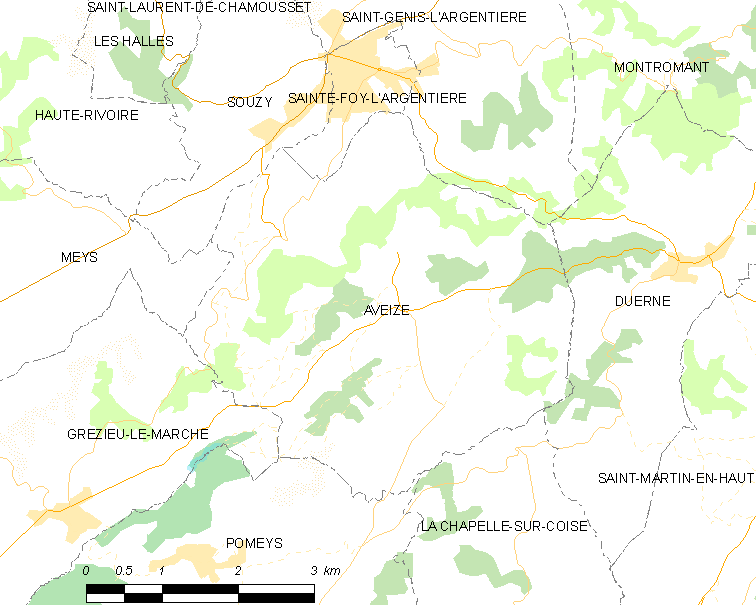 Map of French municipality